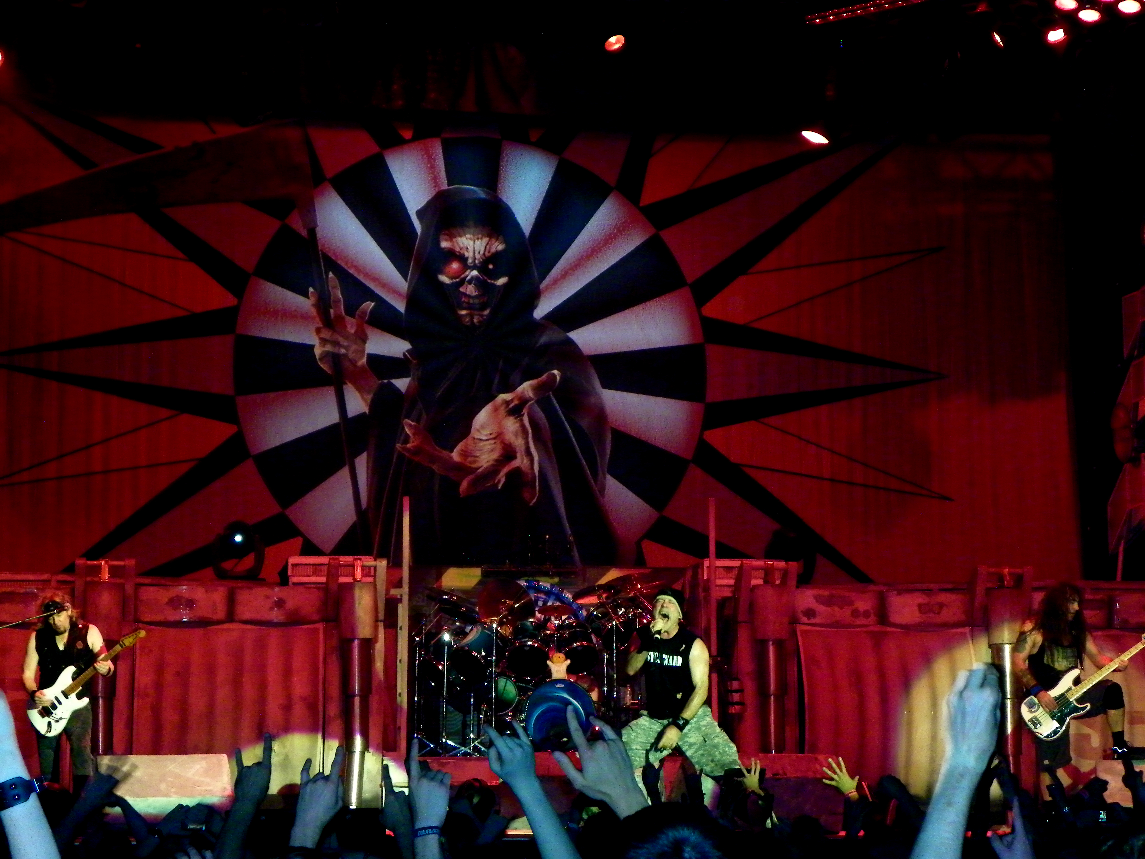 Iron Maiden performing live in Newcastle, July 23rd 2011.